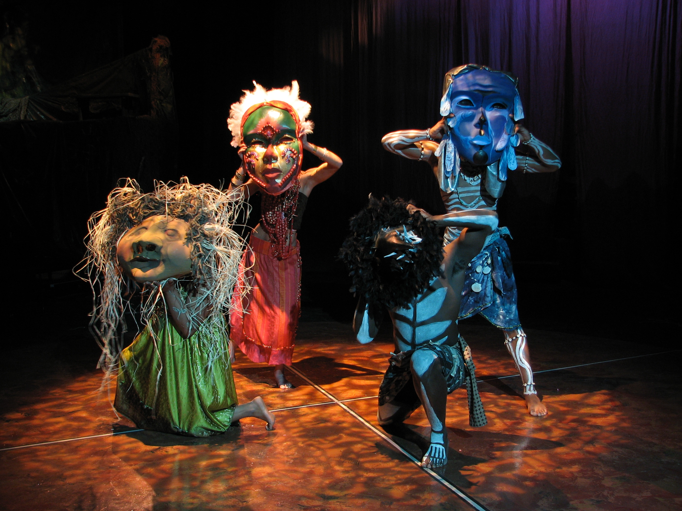 Clockwise from left, Asaka, mother of the Earth, Erzulie, goddess of love, Agwe, god of water, and Papa Ge, demon of death, from the Alfred University production of Once on This Island during the spring of 2007.